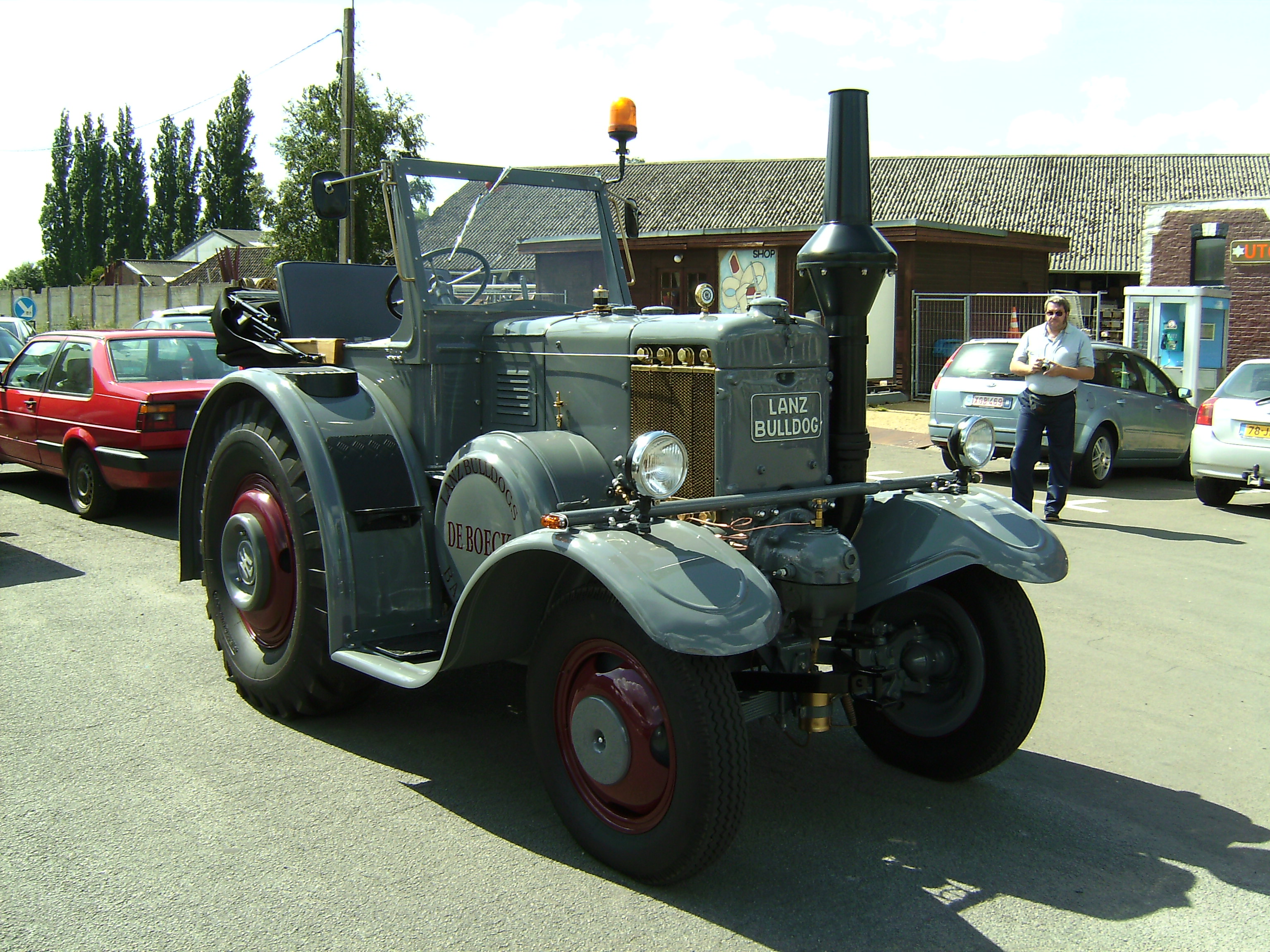 Lanz Bulldog tractor, "Scheldeland in stoom" 2007, Baasrode-Noord train station of the Dendermonde-Puurs heritage railway, Belgium